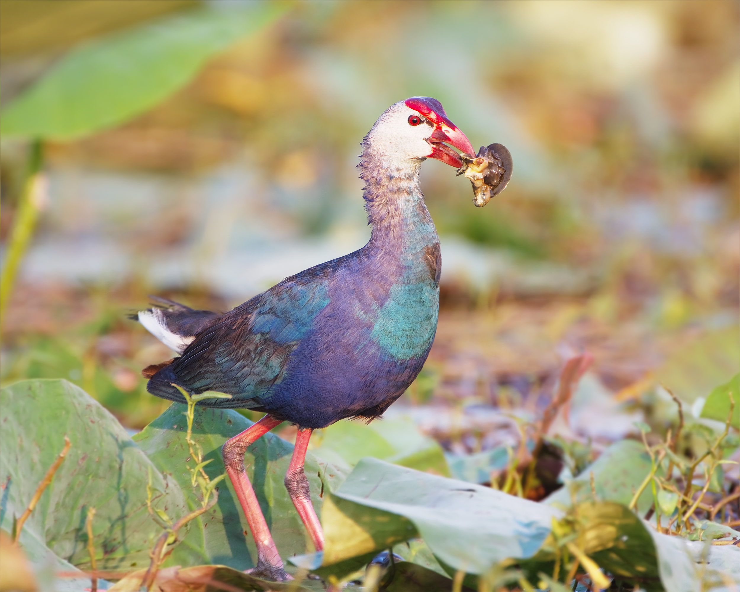 Black-backed Swamphen Porphyrio indicus viridis, Bueng Boraphet, Phra Non, Nakhon Sawan, Thailand